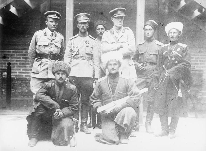 Ministry of Information First World War Official Collection Group of officers and men from Russian force in Persia.Back row L/R: LieutenantColonel Rowlandson, Colonel Rajhanov, General Beach, Persian Officer in Russian Service, and Captain Tenakov. Front row: Two Cossacks.